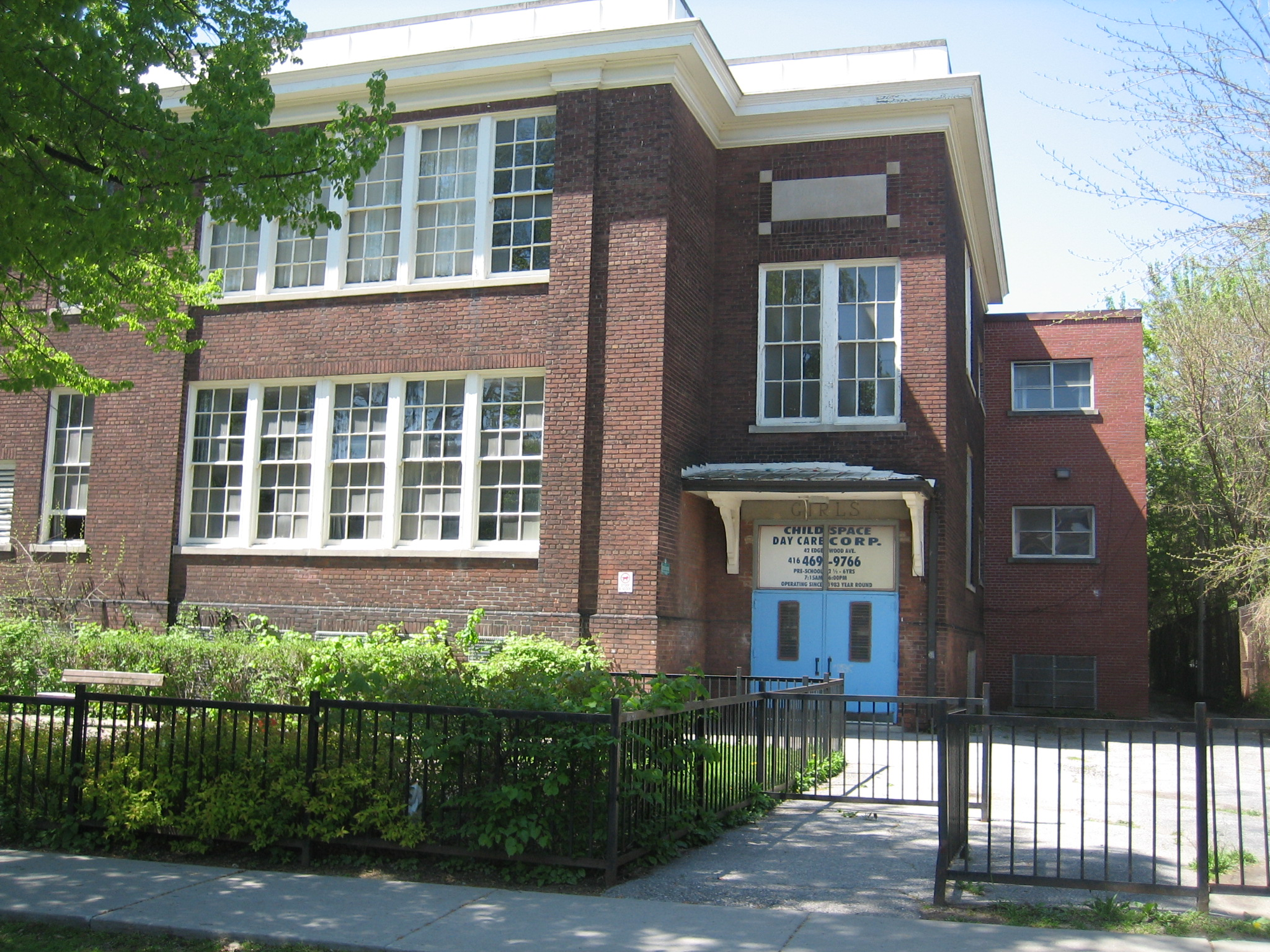 The Beach School at Corpus Christi Elementary